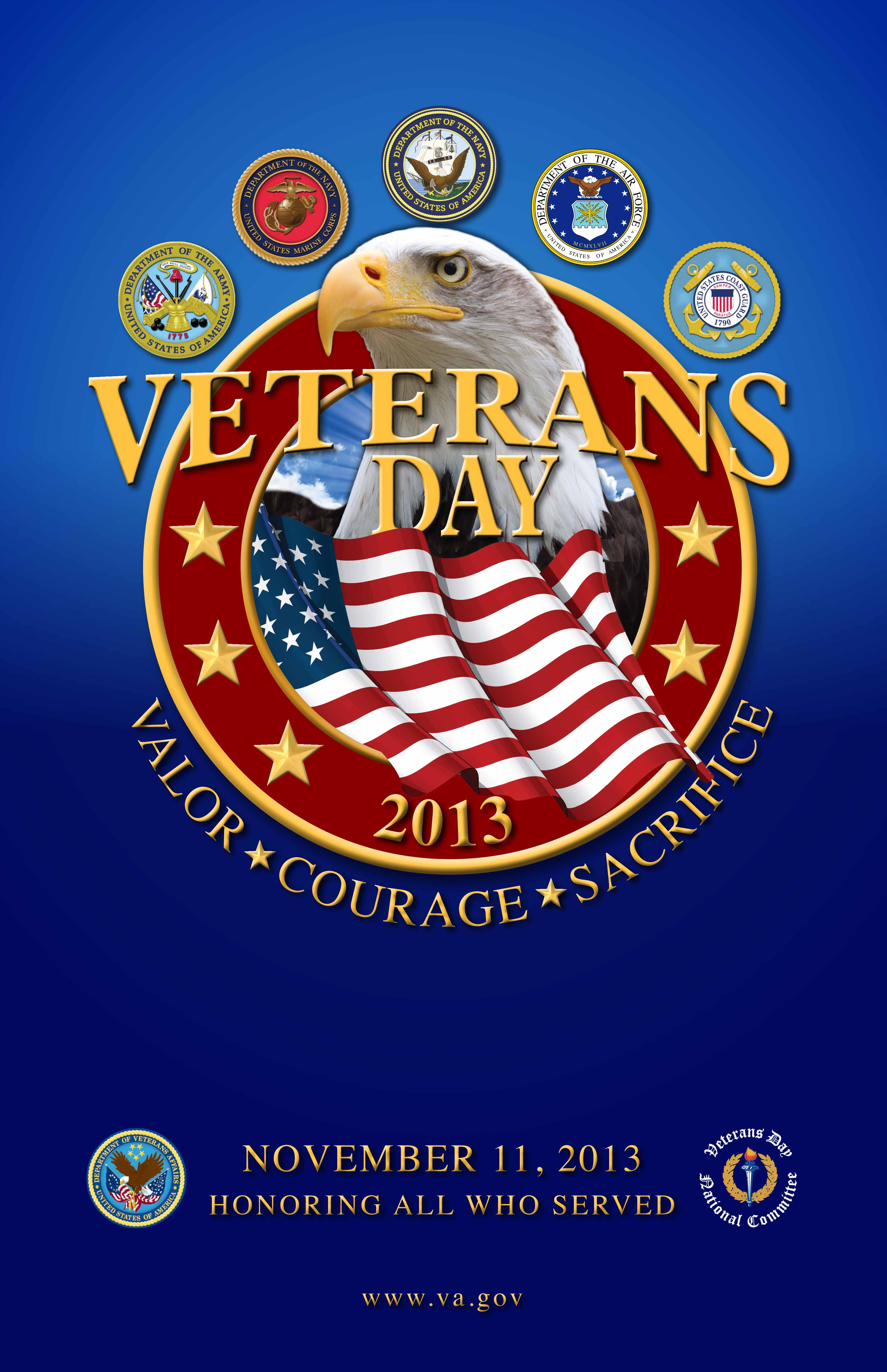 2013 national Veterans Day poster distributed by the Veterans Day National Committee